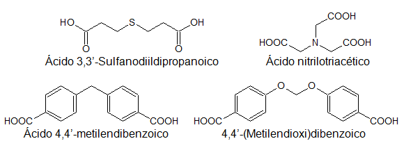 Multiplicative nomenclature examples